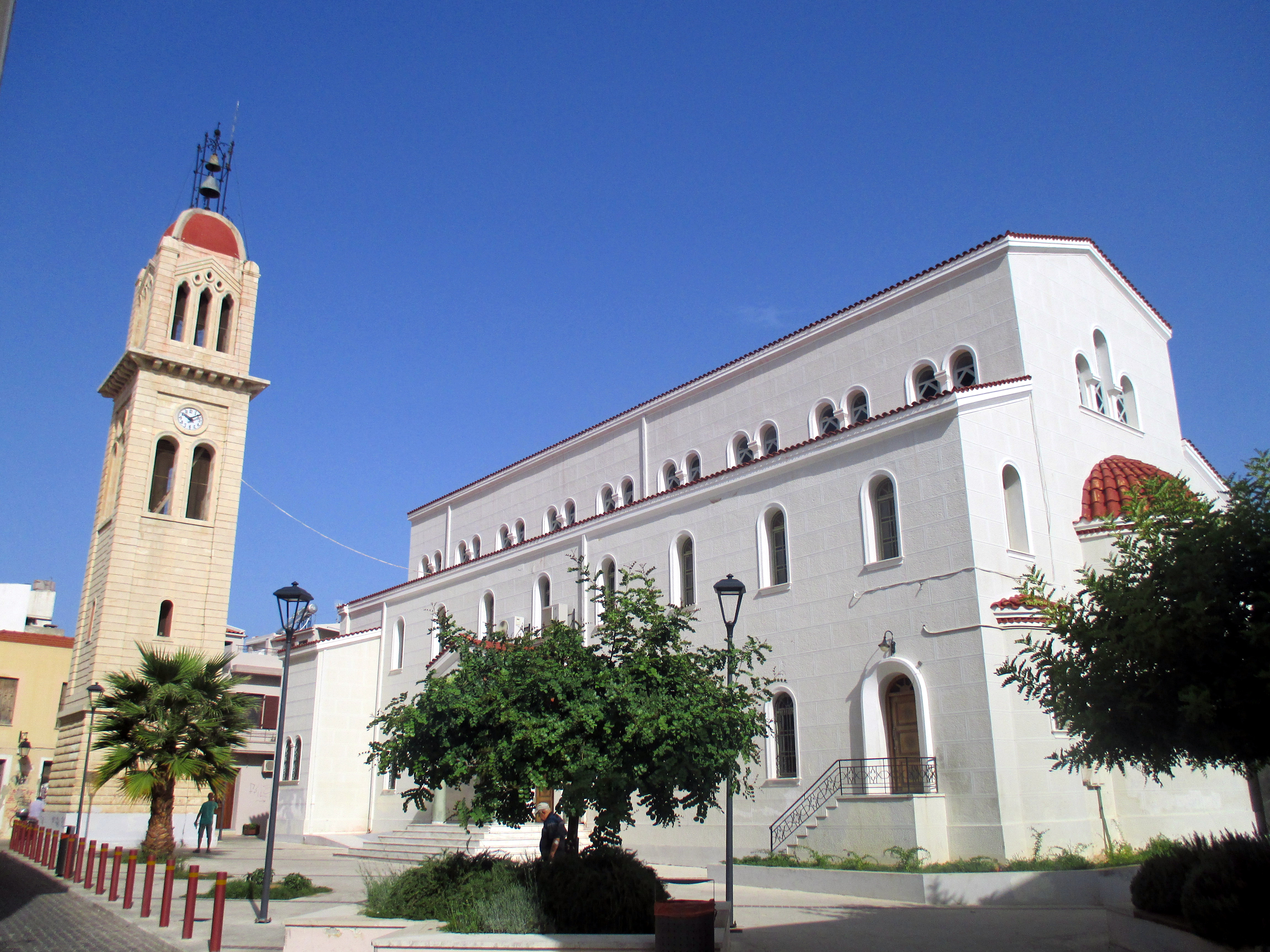 Megali Panagia, Cathedral of Rethymno, Crete, Greece.